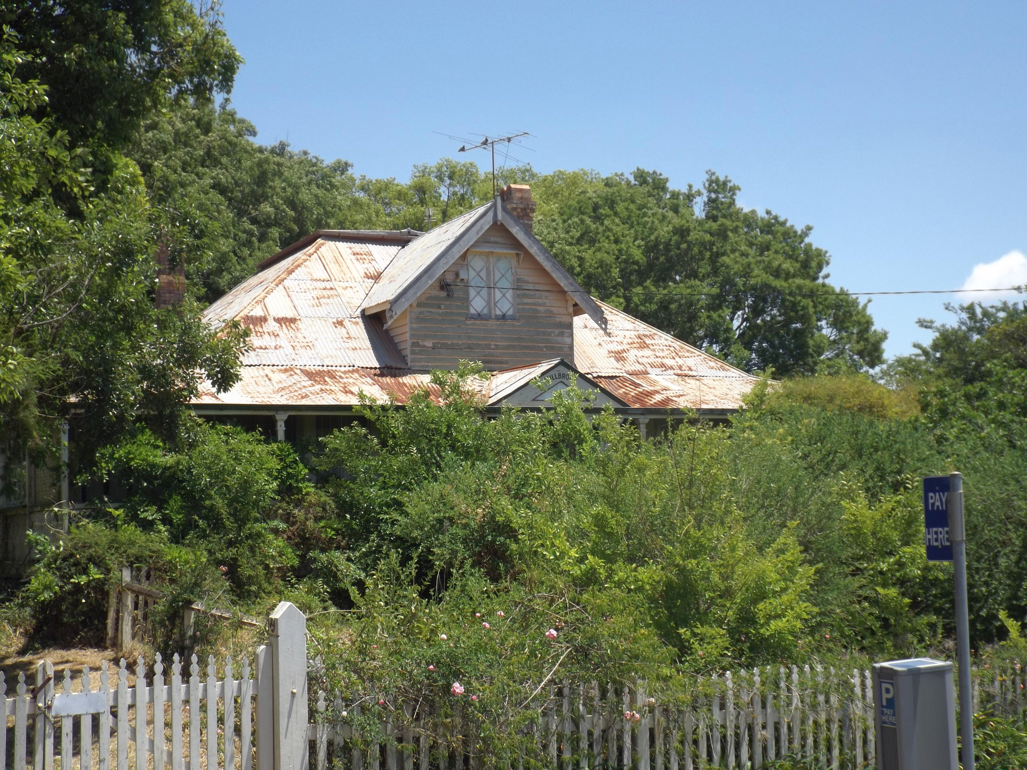 Photo of Millbrook residence in East Toowoomba, Queensland, Australia.